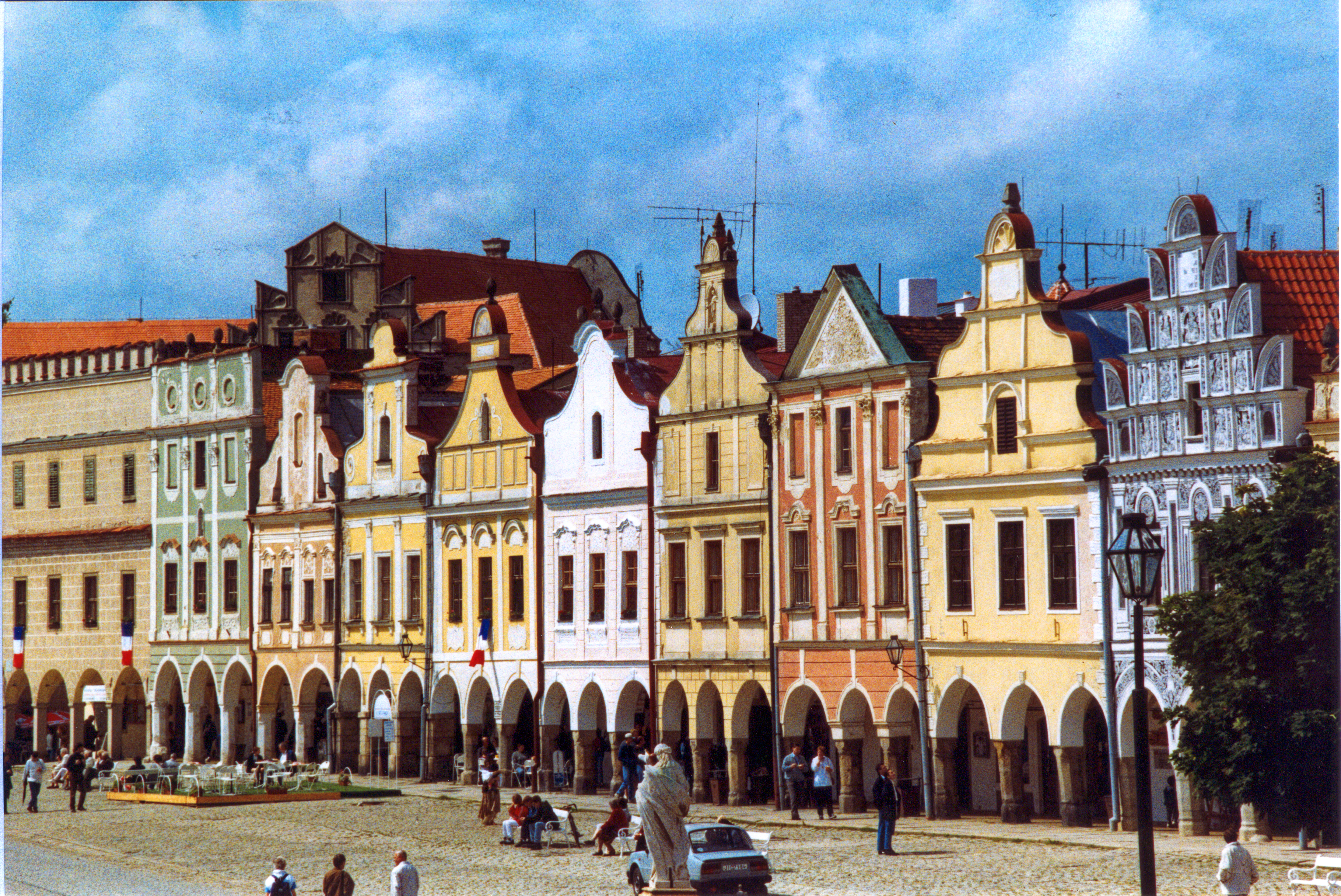 Telč - Náměstí Zachariáše z Hradce